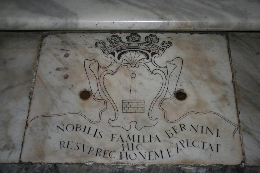 Bernini family tomb, Santa Maria Maggiore, Roma